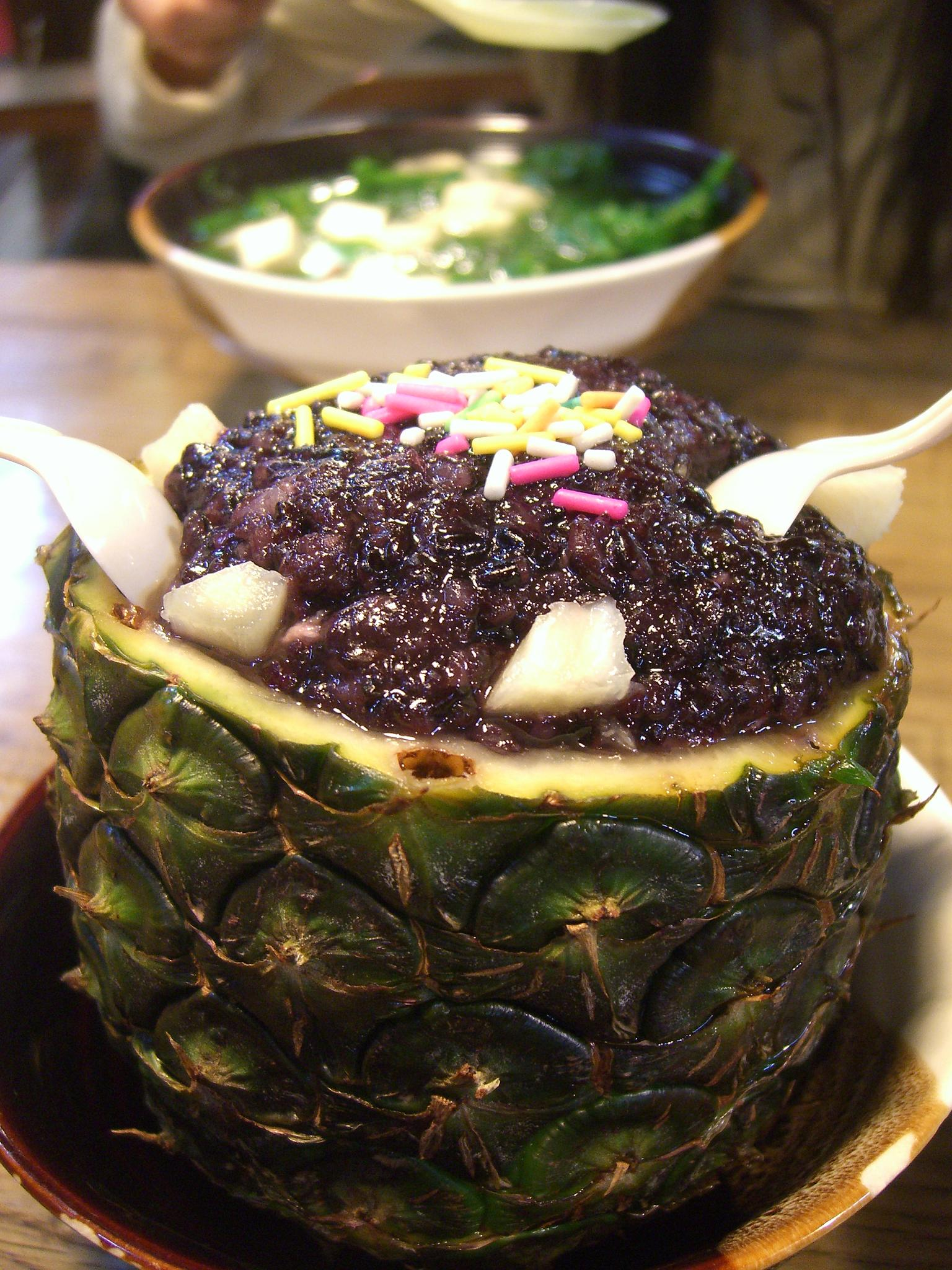 菠萝黑糯米饭 Sweet Black Glutinous Rice in Pineapple - Tastes of Dai stall, Huguoqiaotou Snack Centre --- We discovered a little food court at the 护国桥头小食街 Huguoqiaotou (Huguo Bridge) packed full of students enjoying a cheap feed of spicy Sichuan hotpot and a Dai food. The 傣族 Dai are a minority peoples closely related to the Thai and Laotian peoples, just across the border. Seeing as I hadn't tried any bugs yet, it was bugs for dinner for me! Julia couldn't bear to put one in her mouth :p It's a pity both the 炸竹虫 bamboo worms and 炸蚂蚱 grasshoppers were deep fried to a crisp. I could still faintly taste the sweetness of the bamboo worm, but the grasshopper was just a crunchy snack. We also decided to try the freshwater "mini lobsters". That was before we heard about the potential for it to harbour liver flukes! In any case, they were very well cooked, being first deep fried, and then tossed in a spicy sauce. Quite delicious, but very fiddly to Shell. The 菠萝黑糯米饭 pineapple rice caught us by surprise! We were expecting a savoury fried rice with pineapple chunks, Thai-style. Instead, we get a sweet sticky black glutinous rice in a hollowed out pineapple, topped with multicoloured sprinkles. Never mind. A staple is still a staple, be it sweet or savoury. It was quite good though :) 傣家风味 Tastes of Dai 护国桥头小食街 Huguoqiaotou Snack Center 昆明 云南 中国 Kunming, Yunnan, China Photos: - 炸蚂蚱 Deep Fried Grasshoppers and 炸竹虫 Bamboo Worms - 香辣小龙虾 Spicy Mini Freshwater Lobsters - 菠萝黑糯米饭 Sweet Black Glutinous Rice in Pineapple - 菜单 Menu - 傣家风味 Tastes of Dai stall